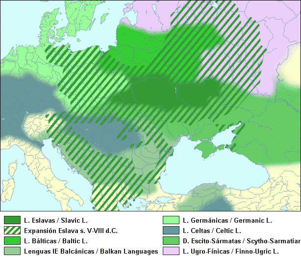 Slavic expansion in 1st Millennium